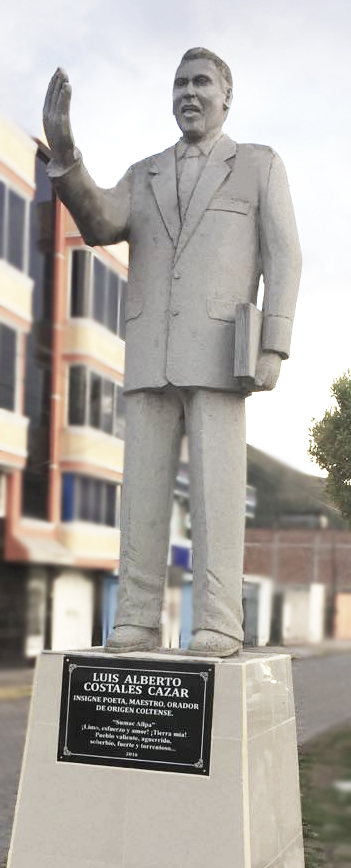 Monumento al poeta, escritor, maestro y orador Luis Alberto Costales en Colta - Riobamba Antigua